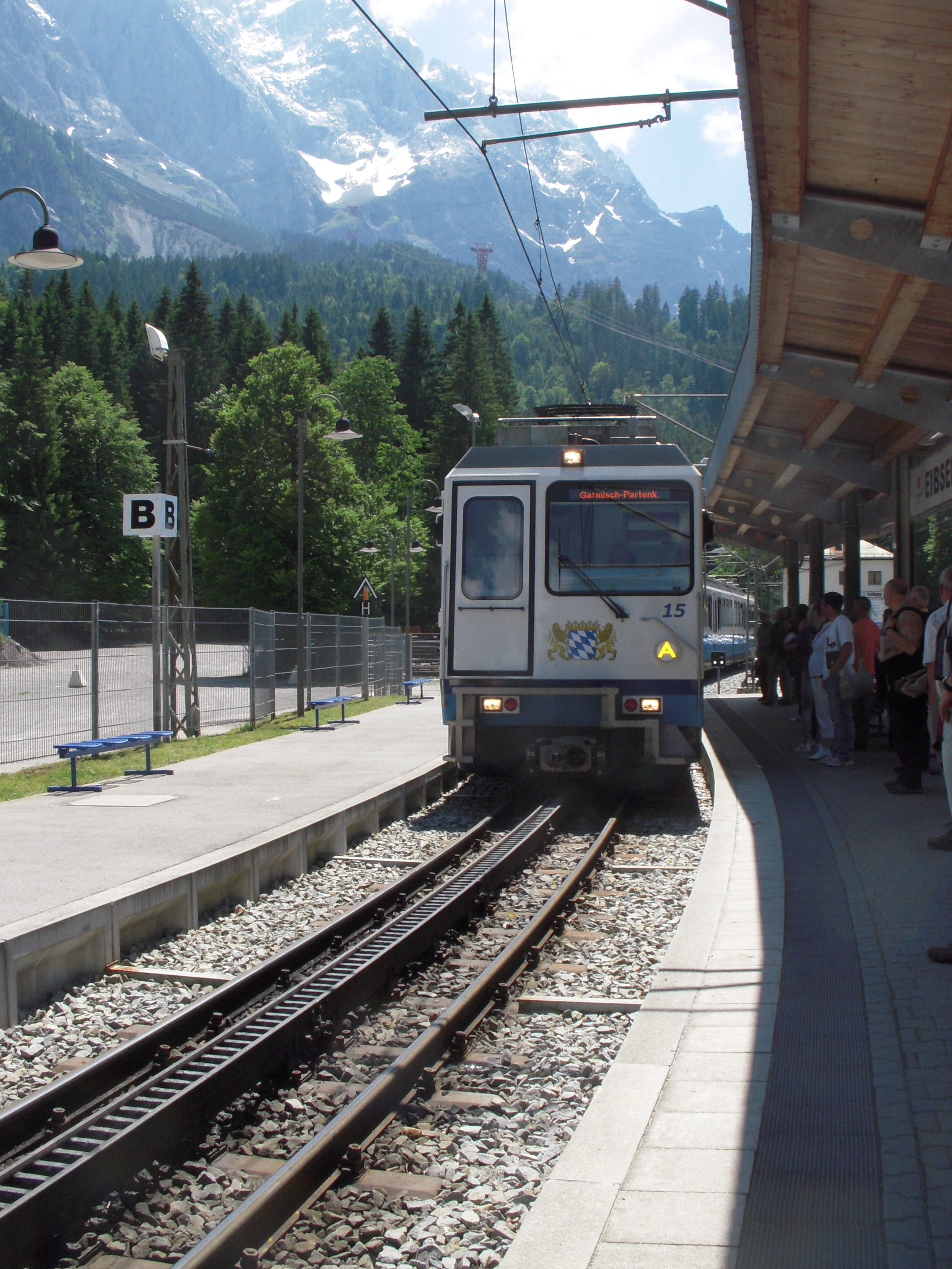 Train from the Bayerische Zugspitzbahn on the Eibsee-station. June 25, 2010.